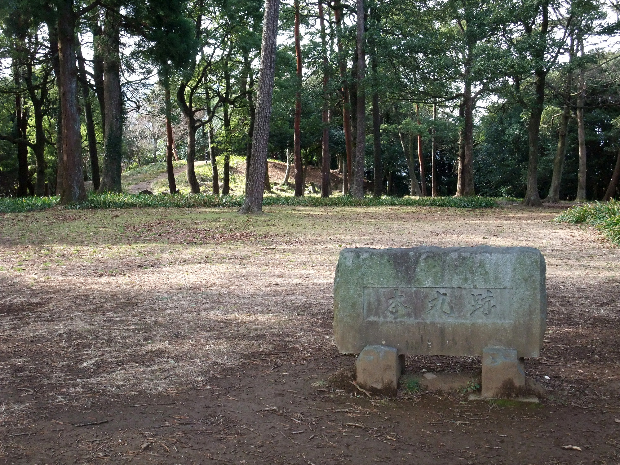 Honmaru (Main bailey) of Ishigakiyama Castle in Odawara-shi, Kanagawa